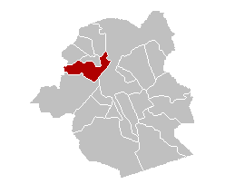 map of municipalities in Brussels with Sint-Jans-Molenbeek in red